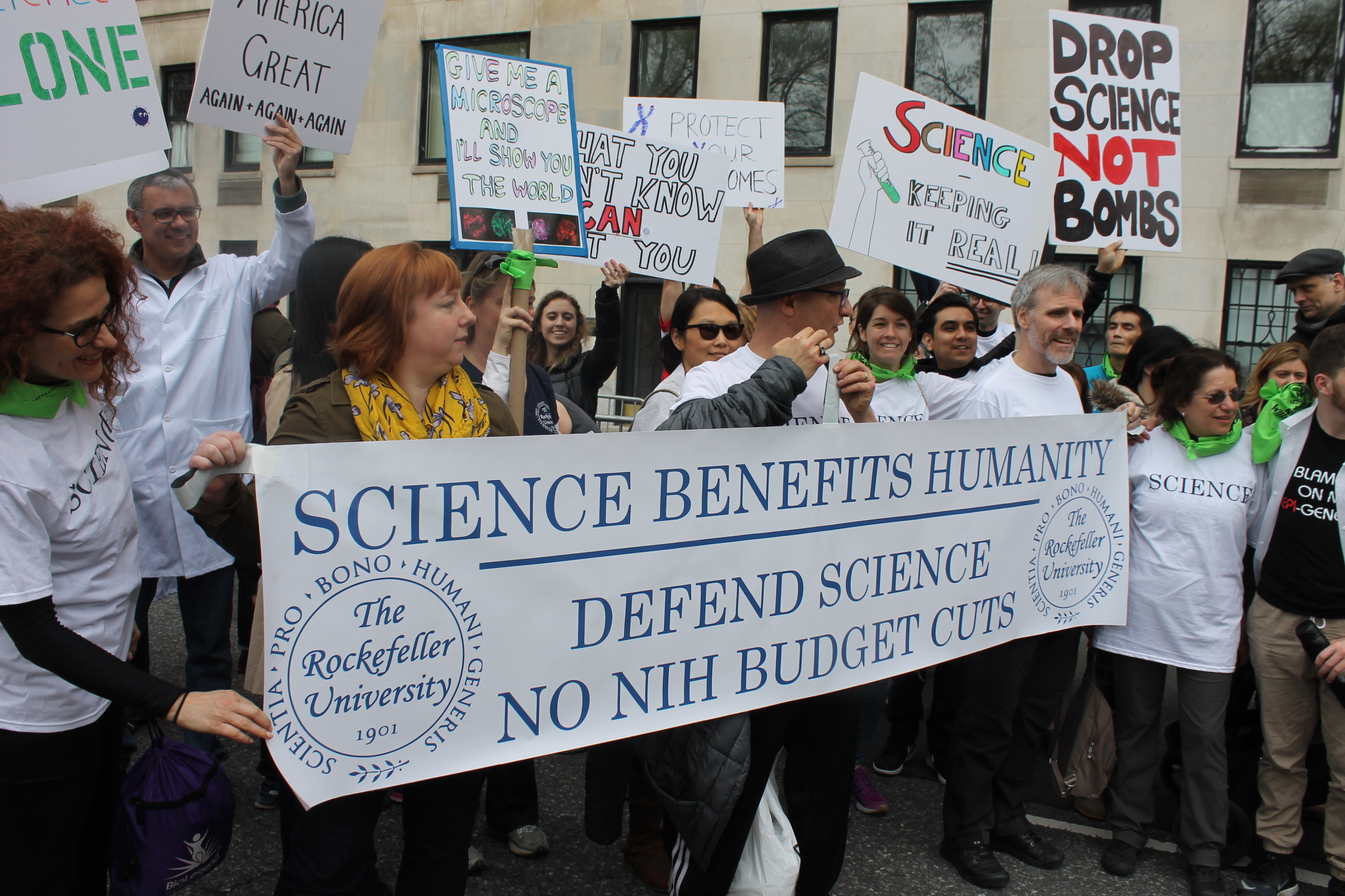 Earth Day March for Science in NYC 2017